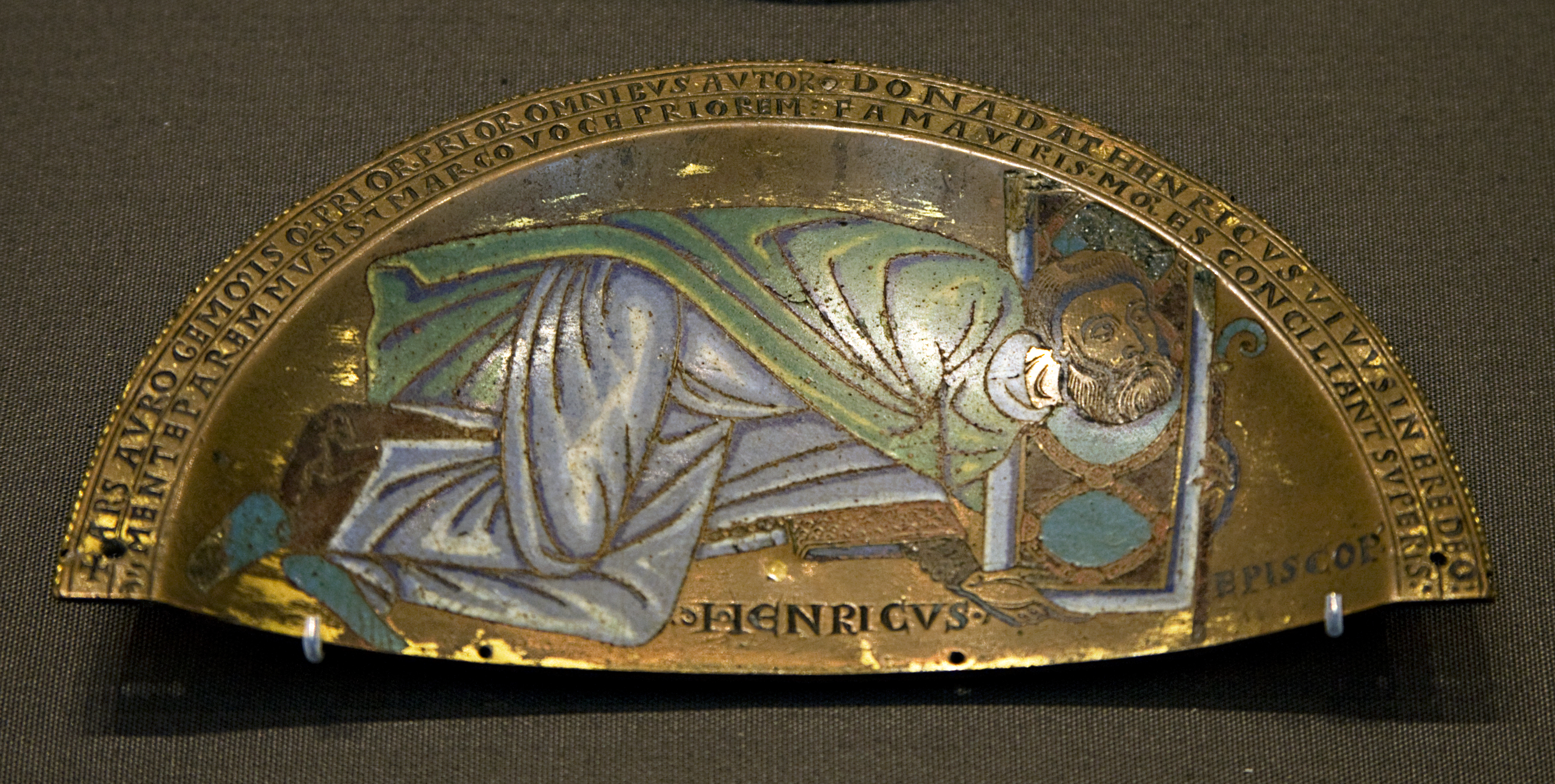 Medieval plaques in the British Museum. Tag on exhibit reads: "Plaques showing Henry of Blois" and "About 1150. Meuse valley, modern-day Belgium, or England. Copper alloy and enamel. PE 1852,0327.1" See BM database entry for more details.